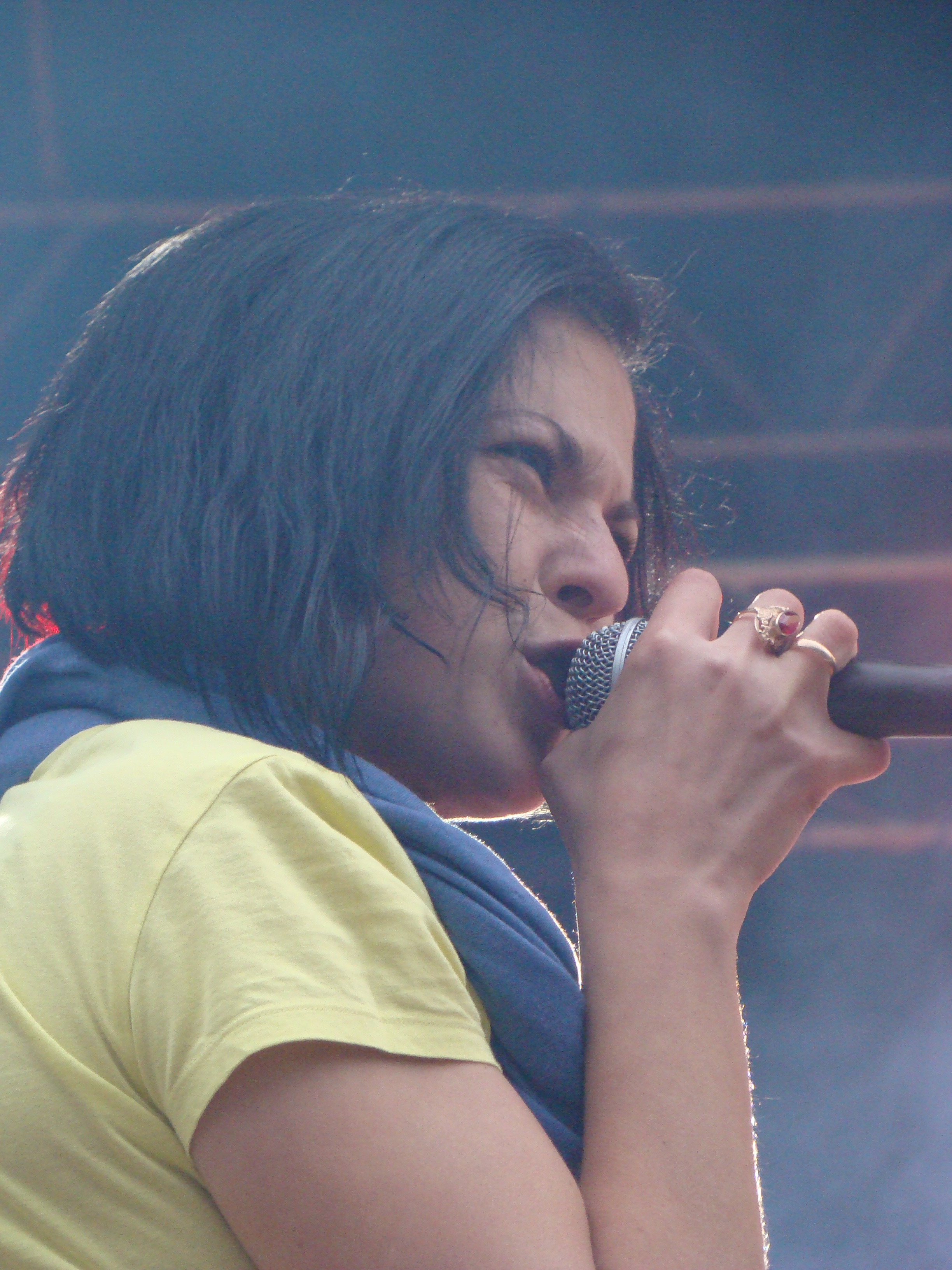 Viktorija Papa, the vocalist of "niagAra" (during the Fort.Missia festival 2011).